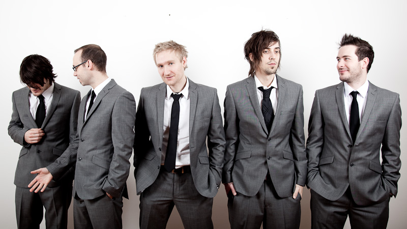 Band photo